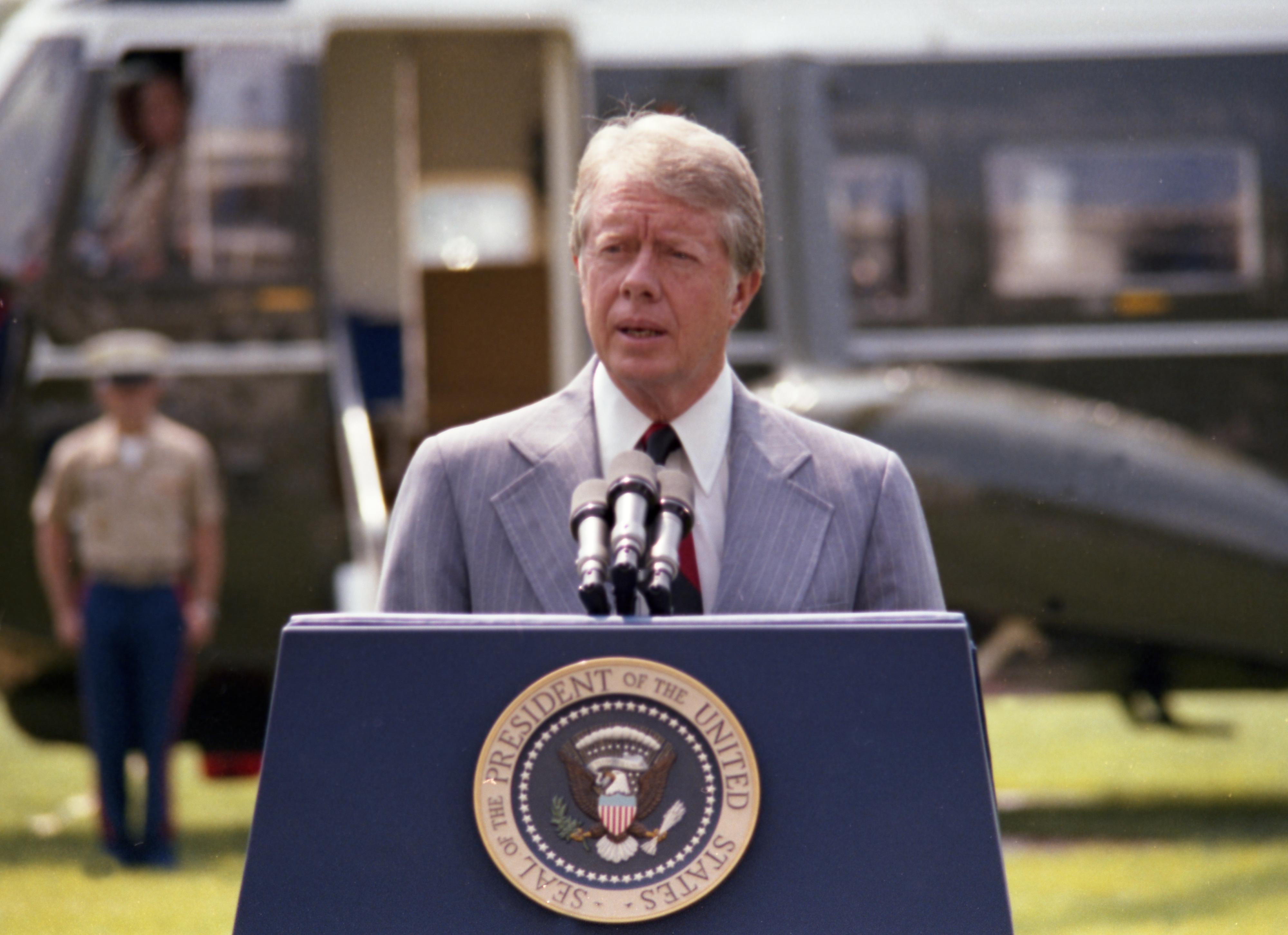 Photo courtesy of Jimmy Carter Library